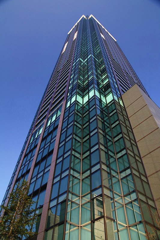 City Tower Nishi-Umeda building(177.4m) at Osaka